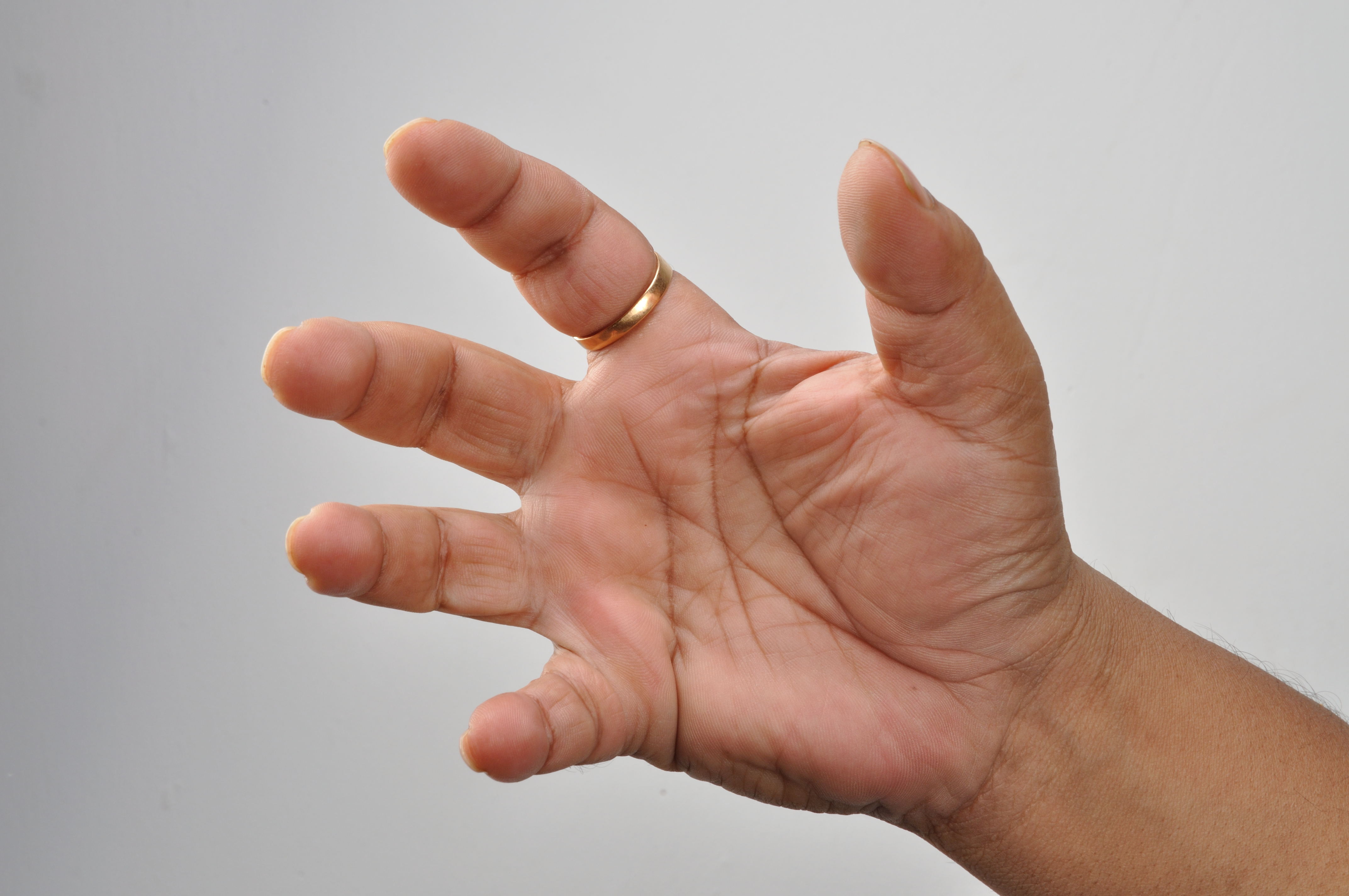 Blank right hand grip of a 51 years old man.